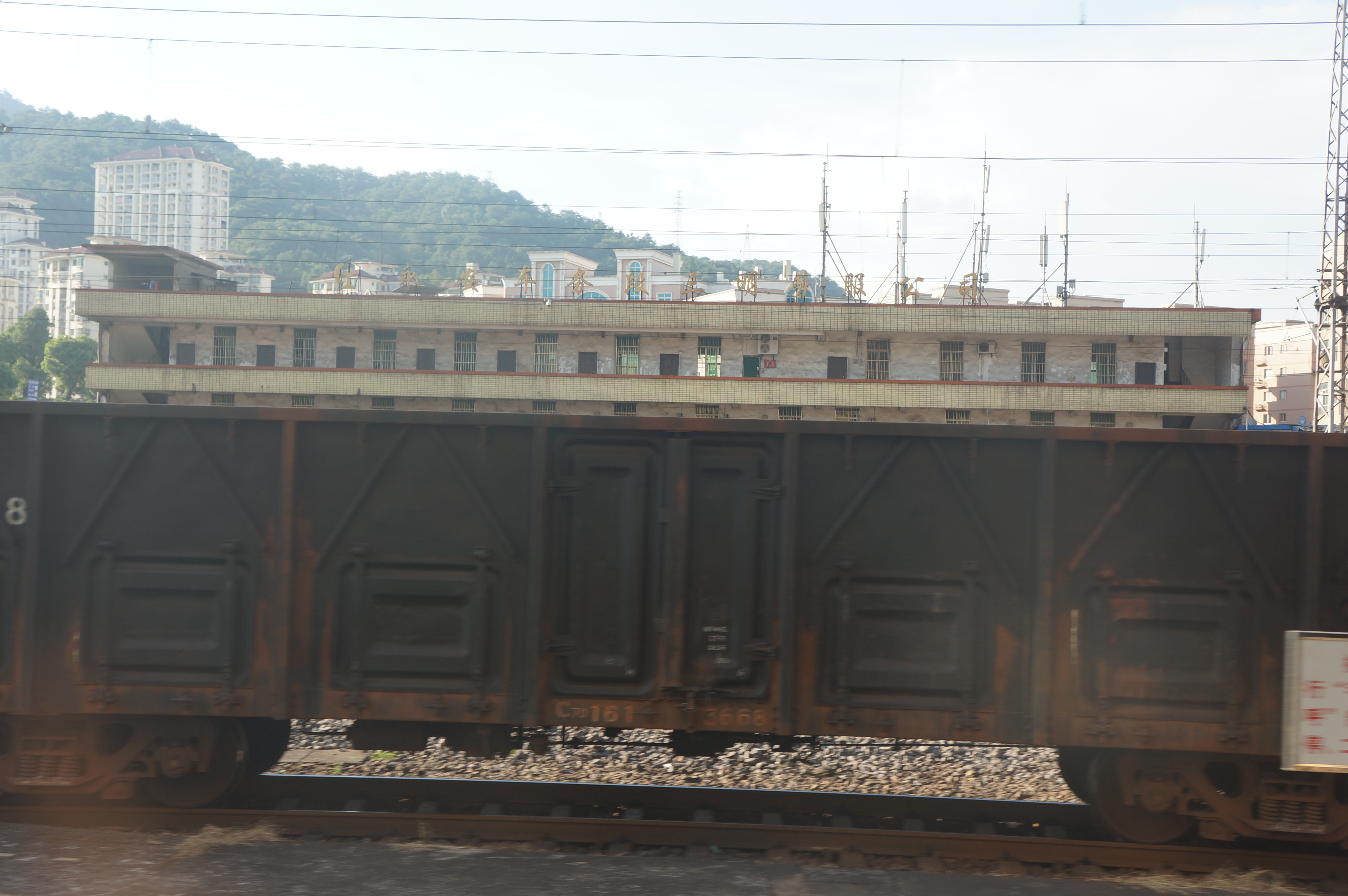 201708 Yong'an Department of Train Operation Sanming Outsourcing Company